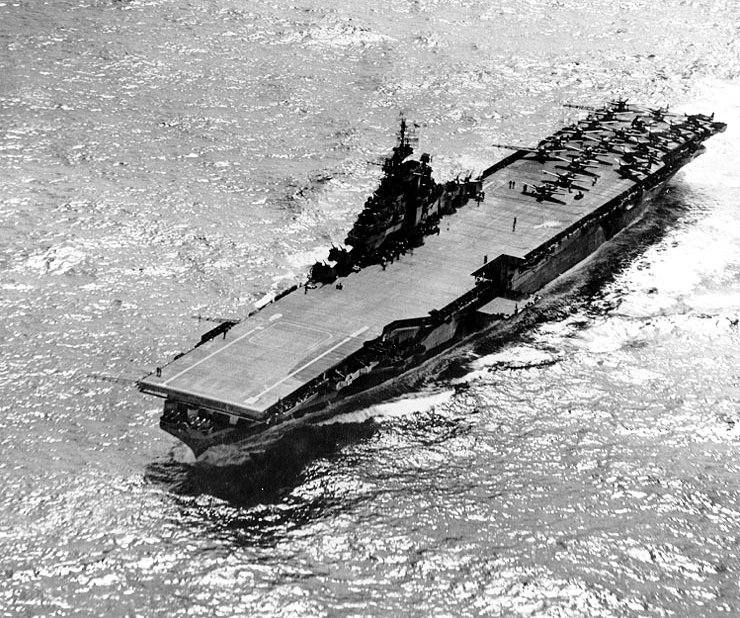 USS Hancock (CV-19) underway on 15 December 1944, during operations in the Philippines area.